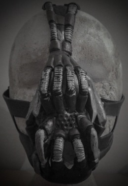 Bane Mask from The Dark Knight Rises.